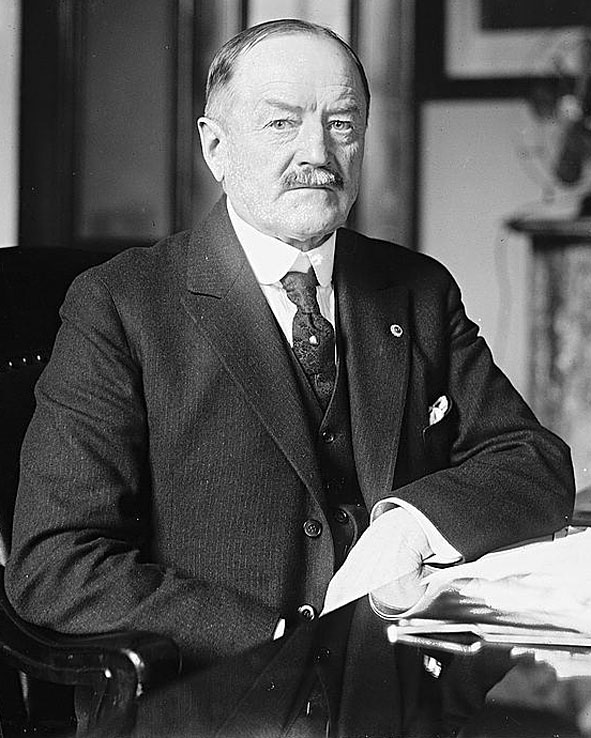 Francis S. White, US Senator from Alabama